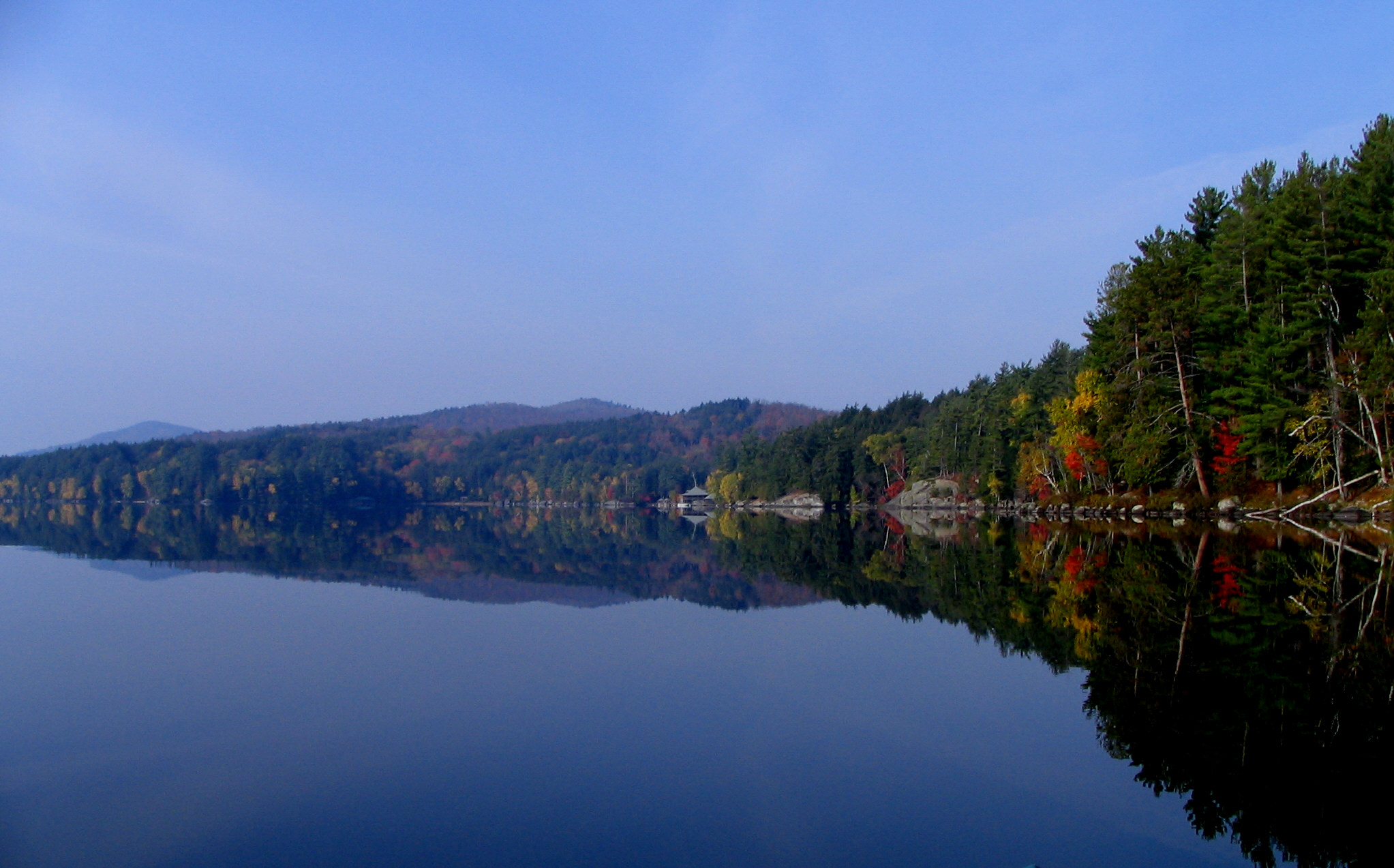 Lower Saranac Lake - Shingle Bay. Taken by User:Mwanner, 18 October, 2007.